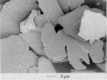 SEM picture of an alumina based effect pigment.